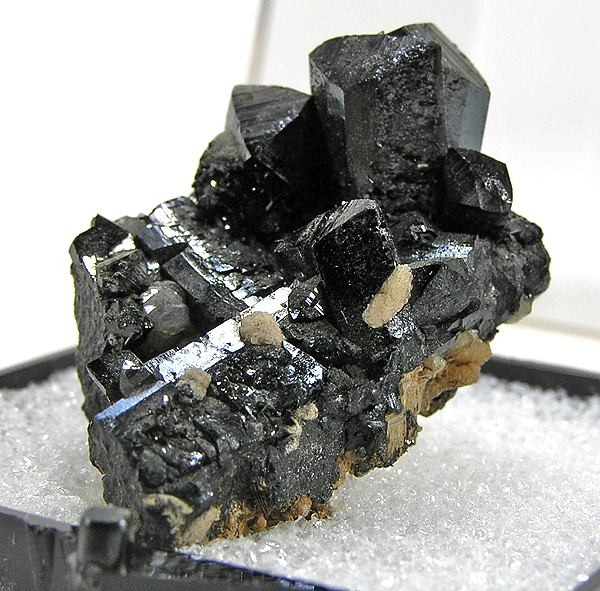 Ilvaite Locality: 2nd Sovietskii Mine (2nd Sovietskiy Mine; Vtoroi Sovietskiy Mine), Dal'negorsk (Dalnegorsk; Tetyukhe; Tjetjuche; Tetjuche), Primorskiy Kray, Far-Eastern Region, Russia (Locality at ) A cluster of sharp, terminated crystals of ilvaite to 1.5 cm, from Dalnegorsk. 4.0 x 3.1 x 3.0cm